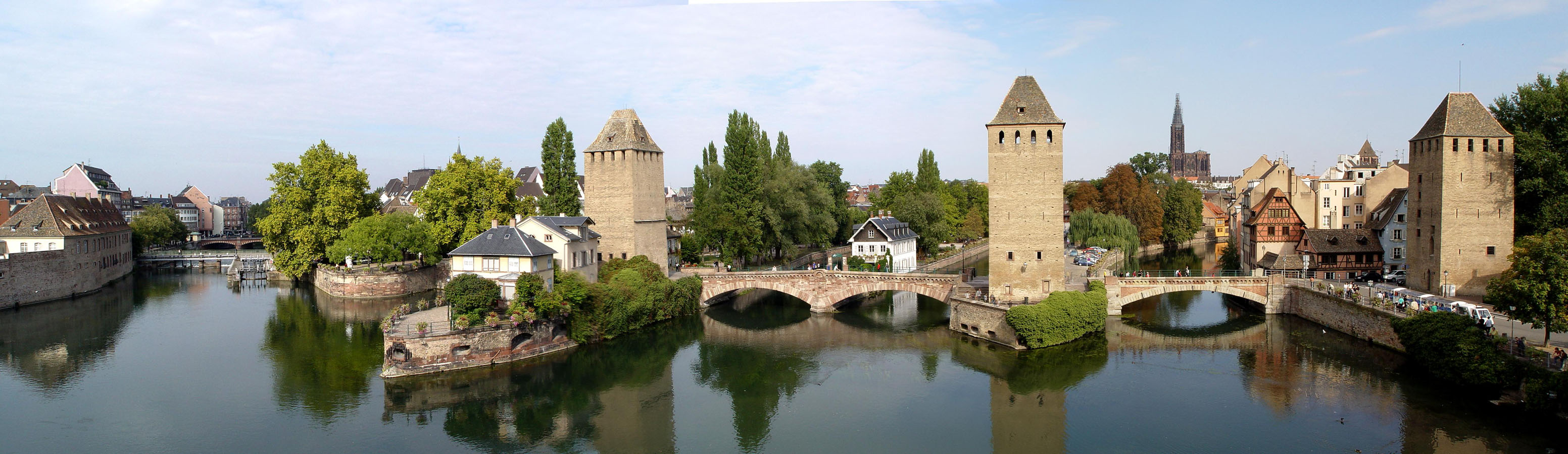 Strasbourg - France - View of the "Ponts Couverts"